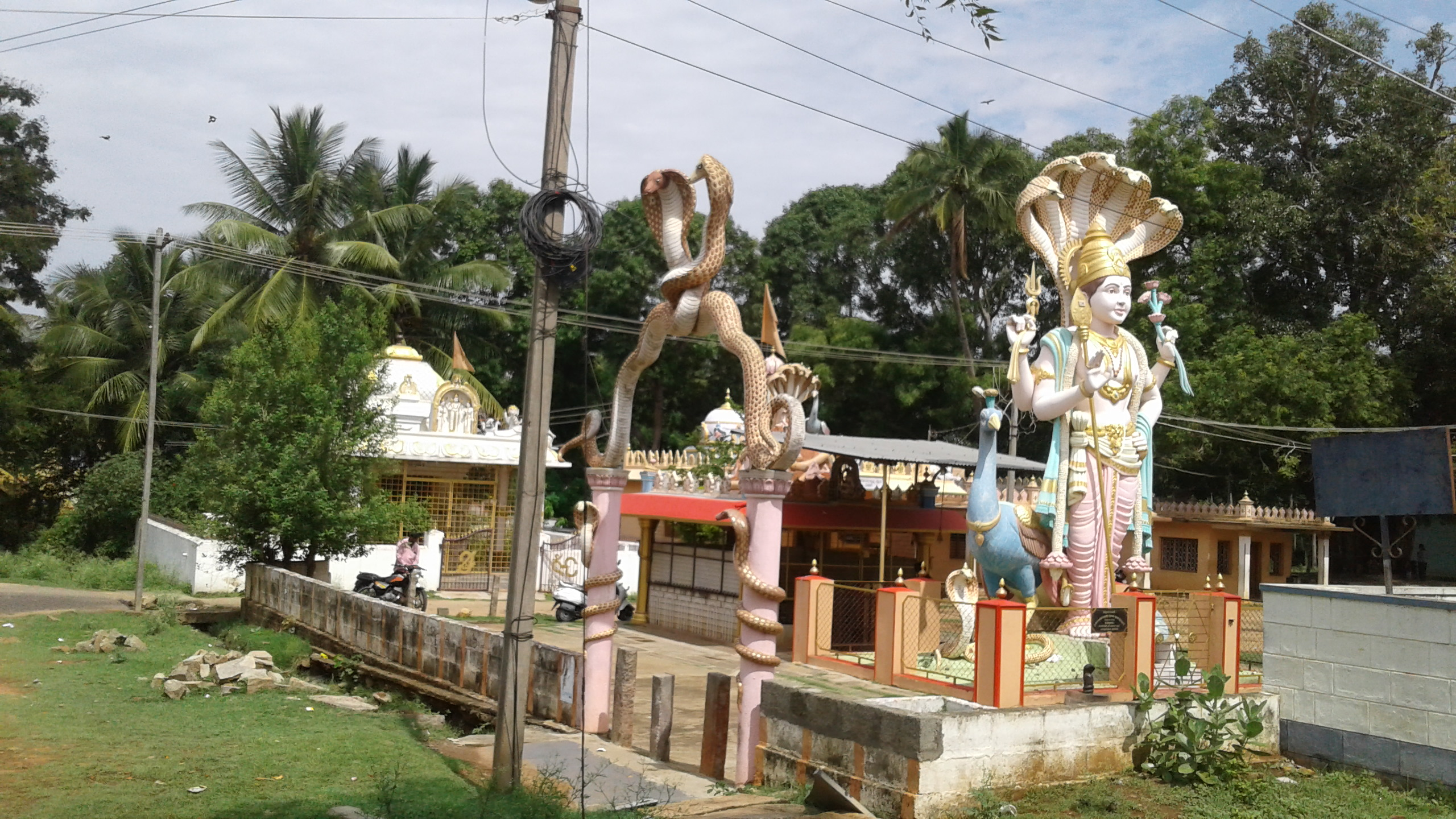 Mysore district, Karanataka state, India.